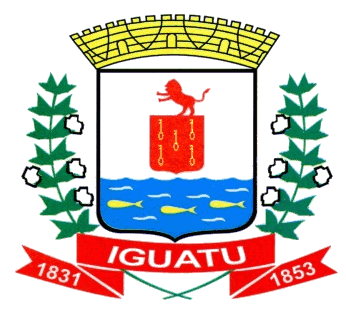 Coat of arms of Iguatu, CE.